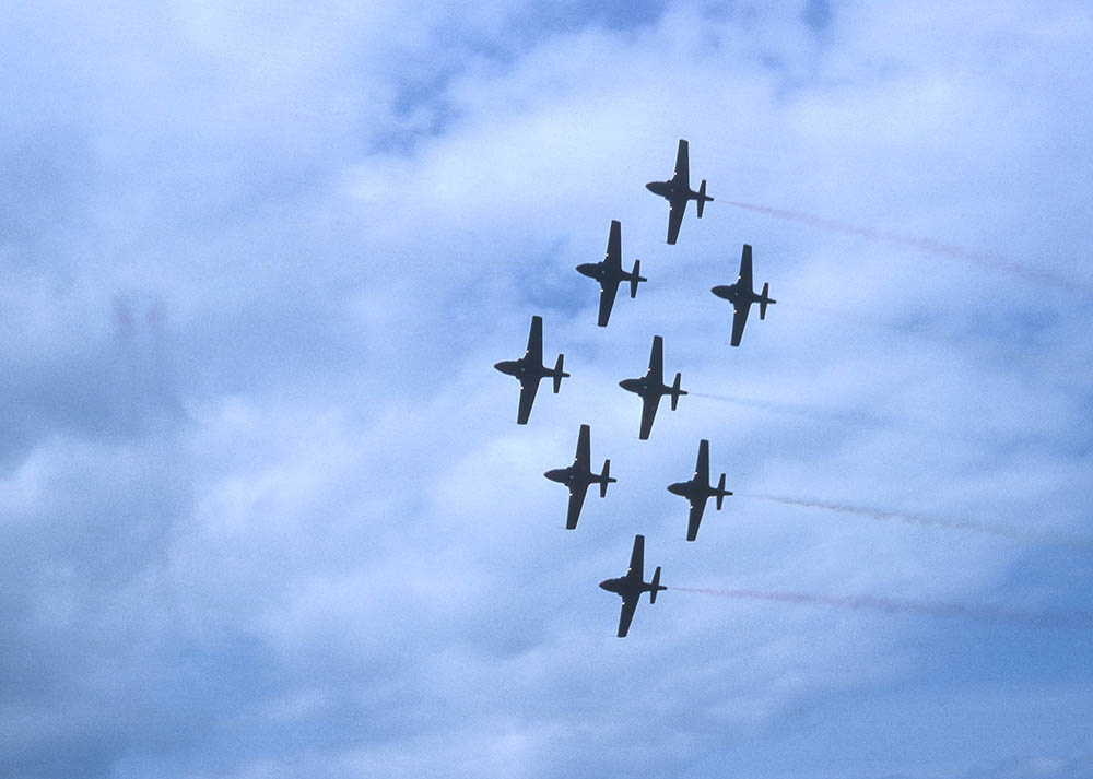 Royal Canadian Air Force Golden Centennaires aerobatic team, Kingston Ontario air show, May 1967.